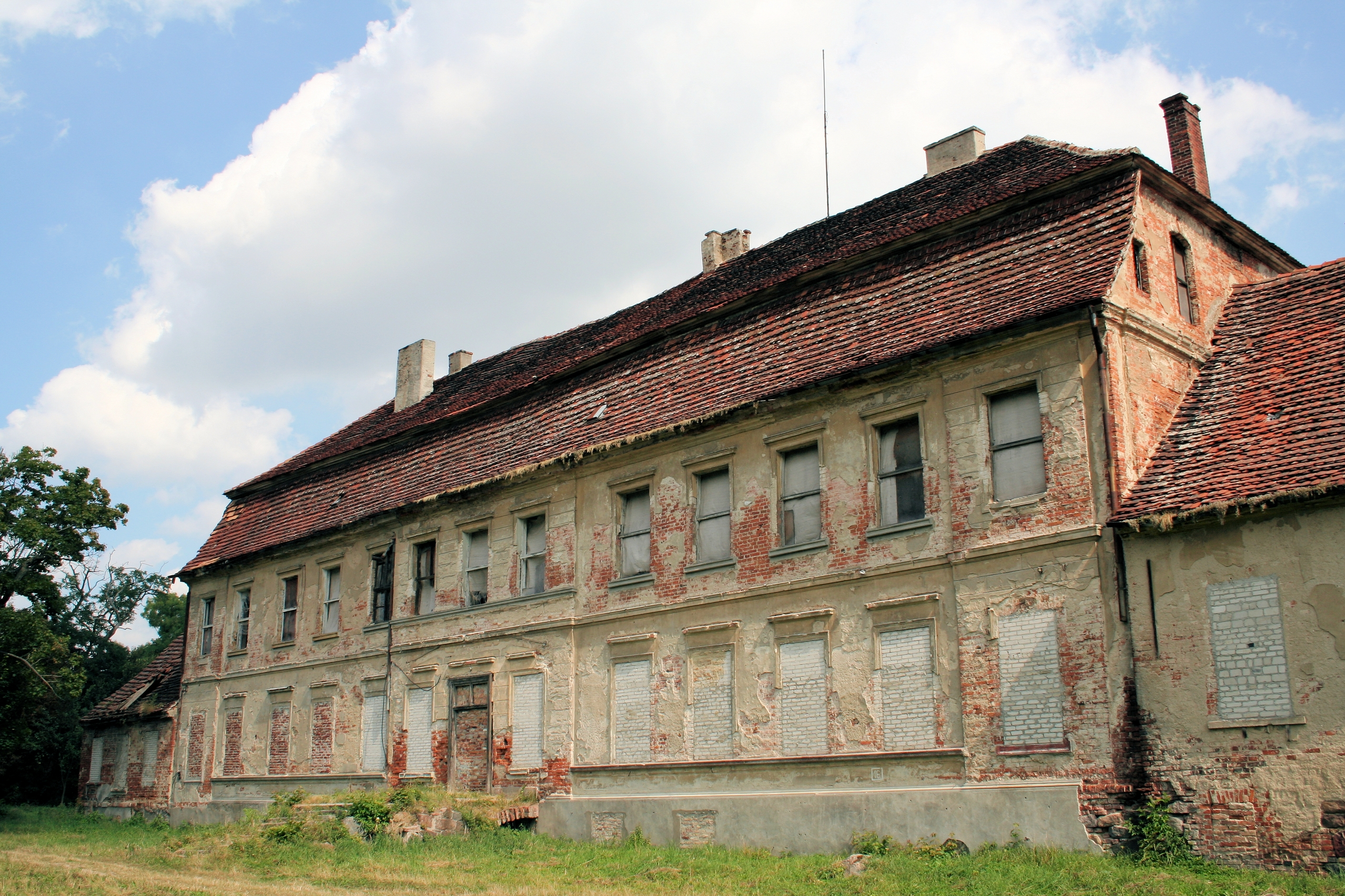 Palace in Roscin, Mysliborz county